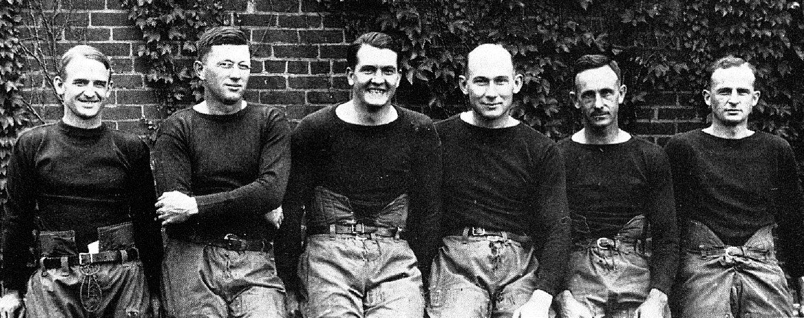 Photograph of members of the coaching staff for the 1922 Michigan Wolverines football team, left to right: Archie Hahn (trainer), Edwin Mather, Angus Goetz, Elton Wieman, Ray Fisher and A. J. Sturzenegger.